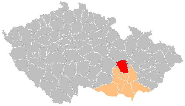 Blansko District within South Moravia Region. Current borders of districts since January 1, 2007.